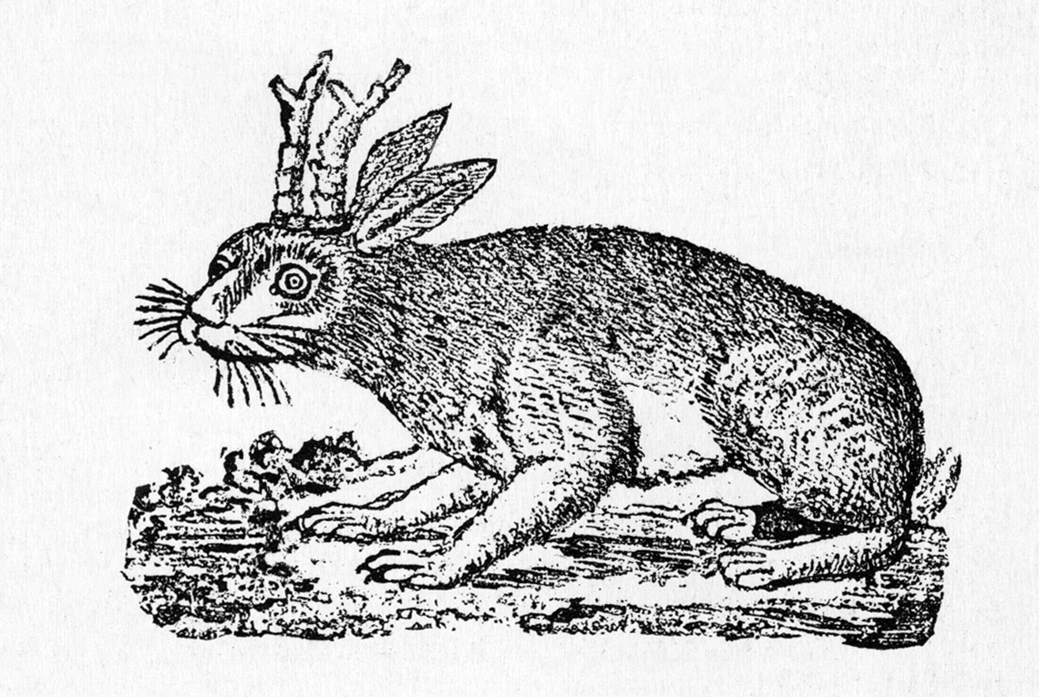 EPSON scanner image